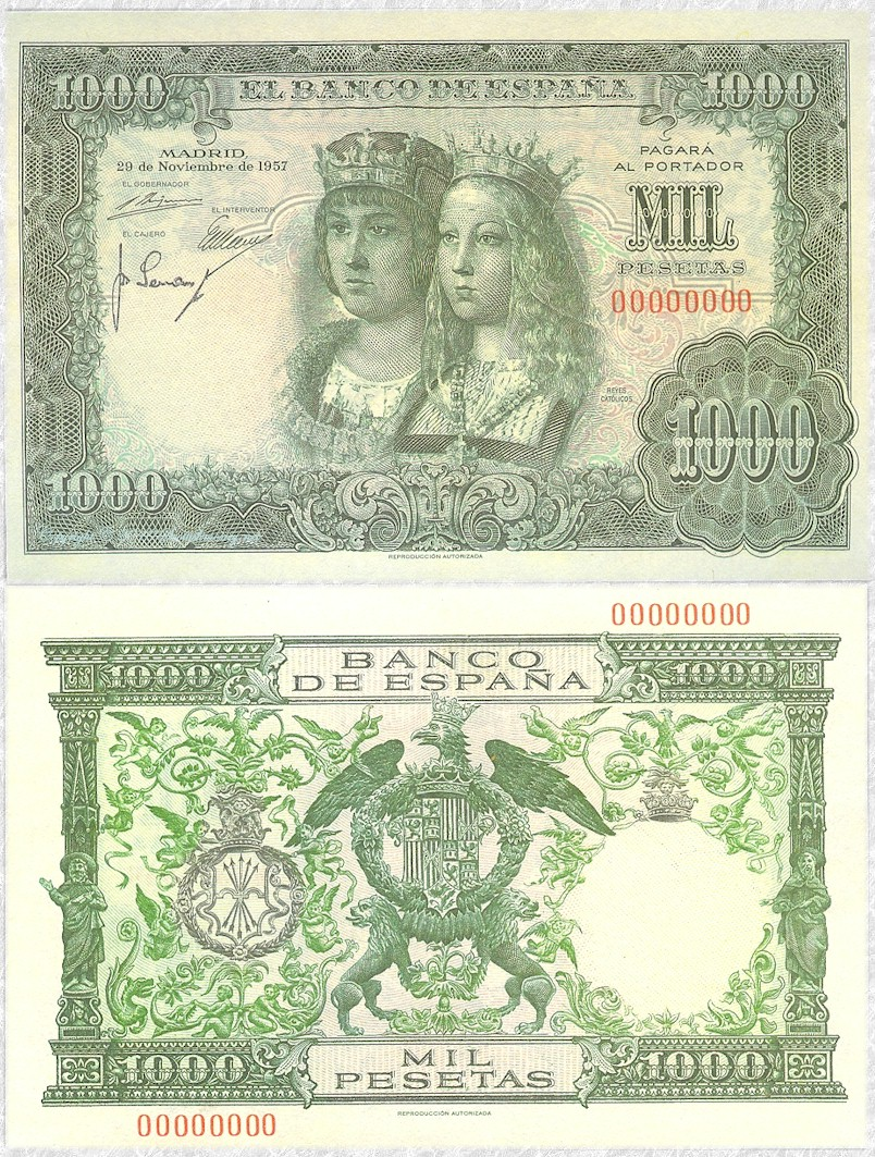 1000 pesetas of Spain 1957. Queen Isabella portrayed with her husband King Ferdinand. This note was used through the mid-1960's.